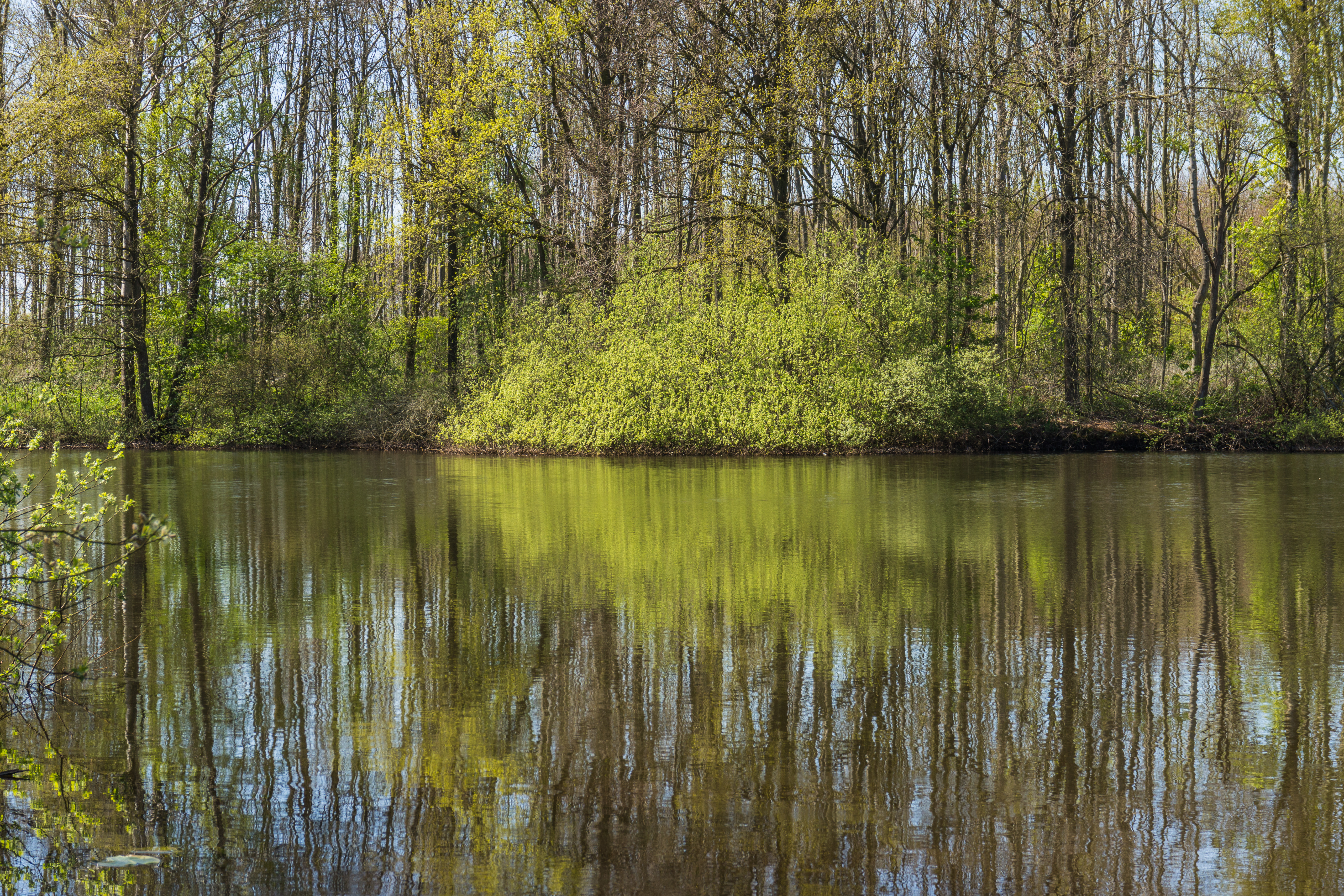 View over the Bekhofplas. Location, nature Beekdal Linde Bekhofplas in the Netherlands.